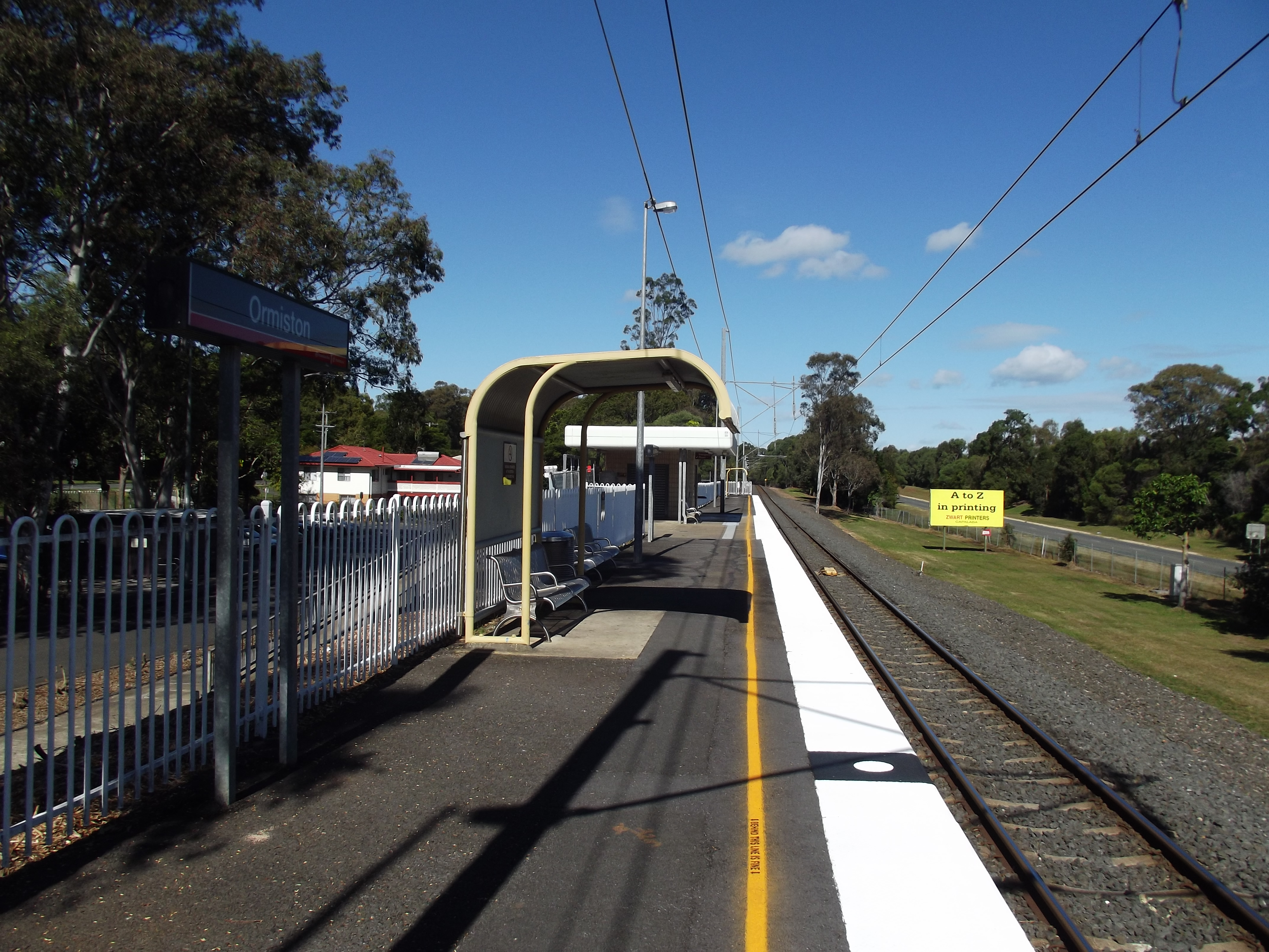 A photo of the station platform, looking east towards Cleveland.